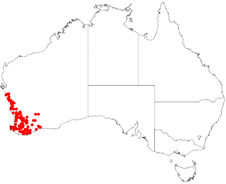 Haemodorum discolor occurrence data from Australasian Virtual Herbarium on 12 May 2017